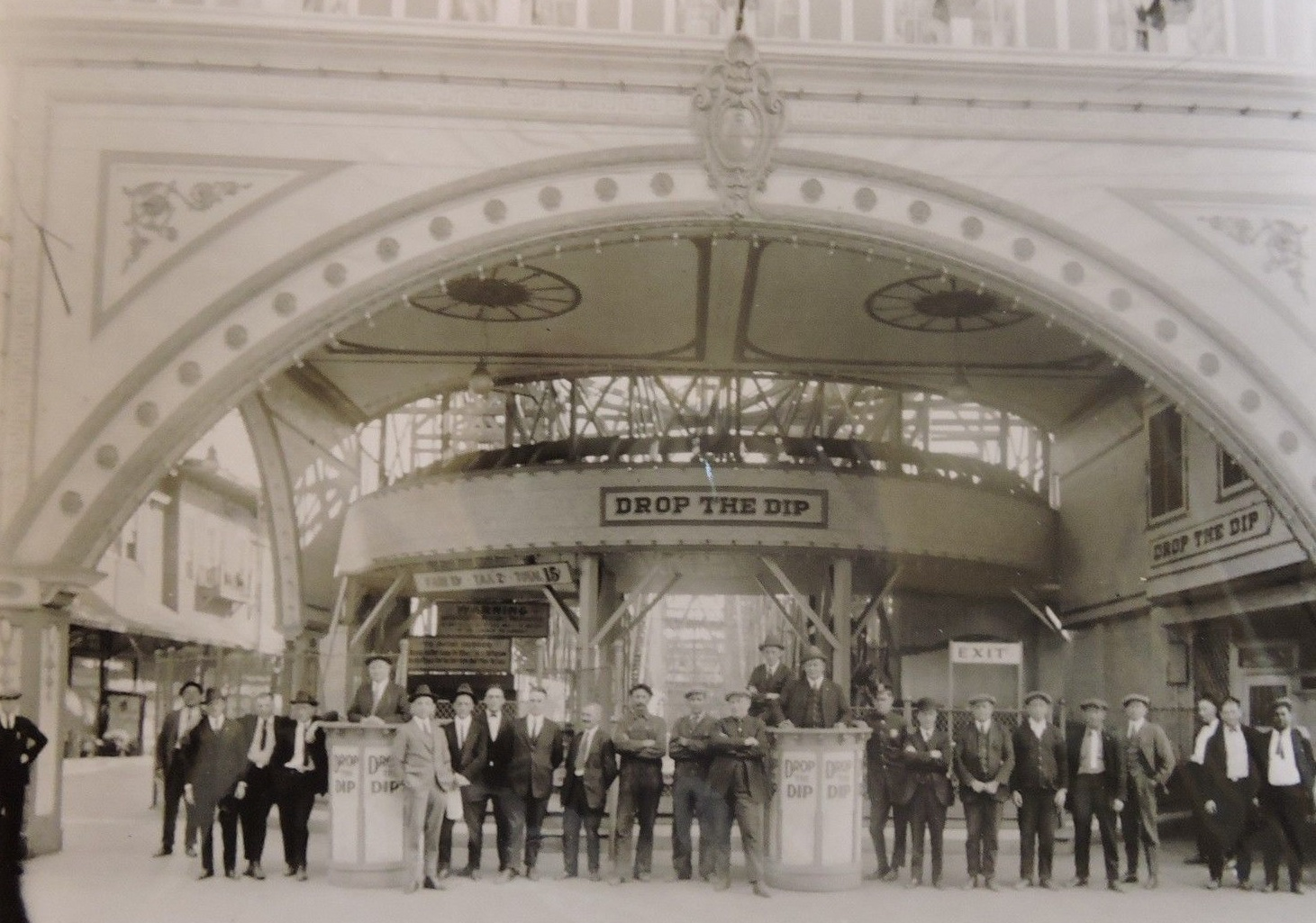 Image of Drop the Dip station at Coney Island Bowery